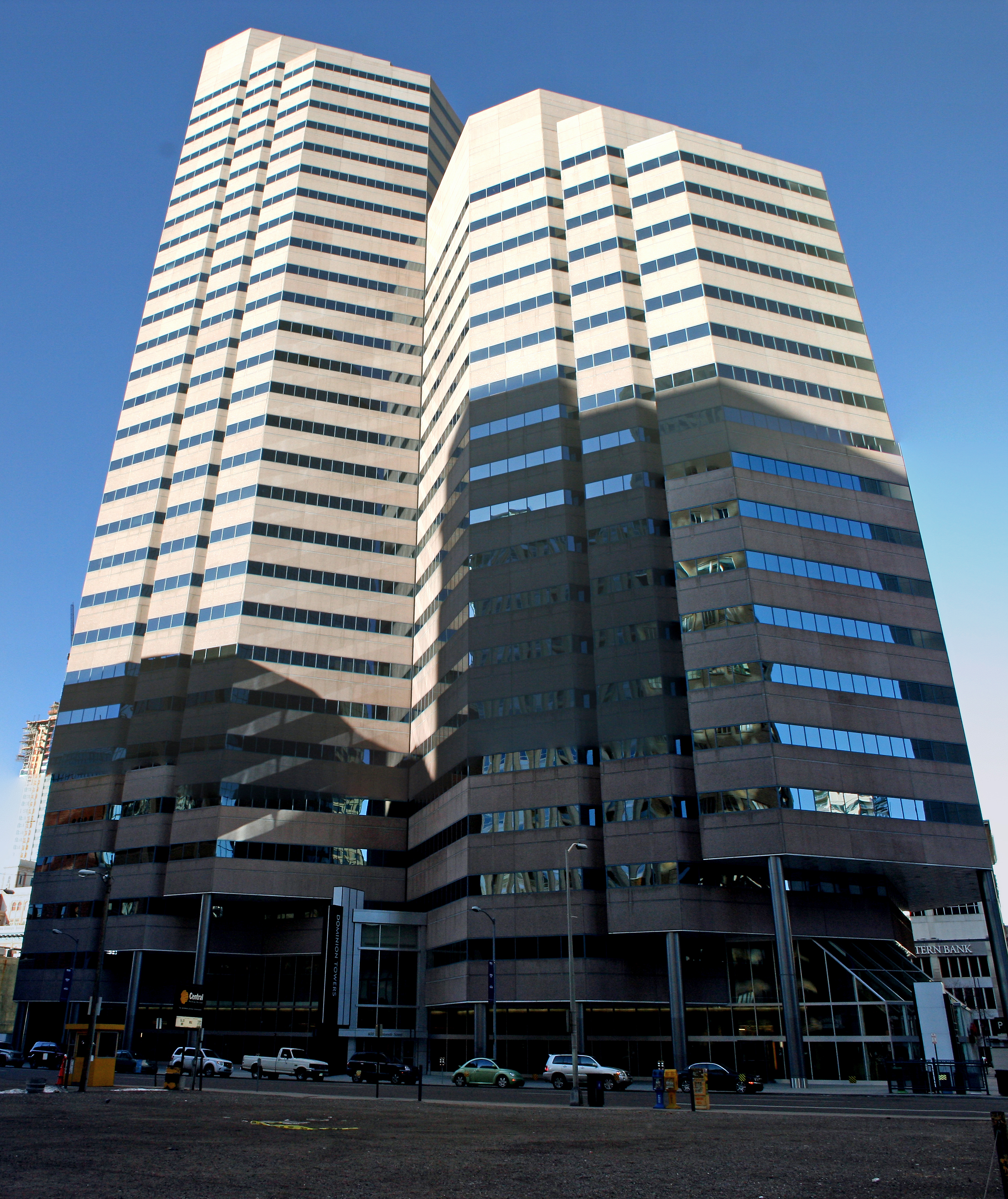 The Dominion Plaza office building complex in Denver, Colorado